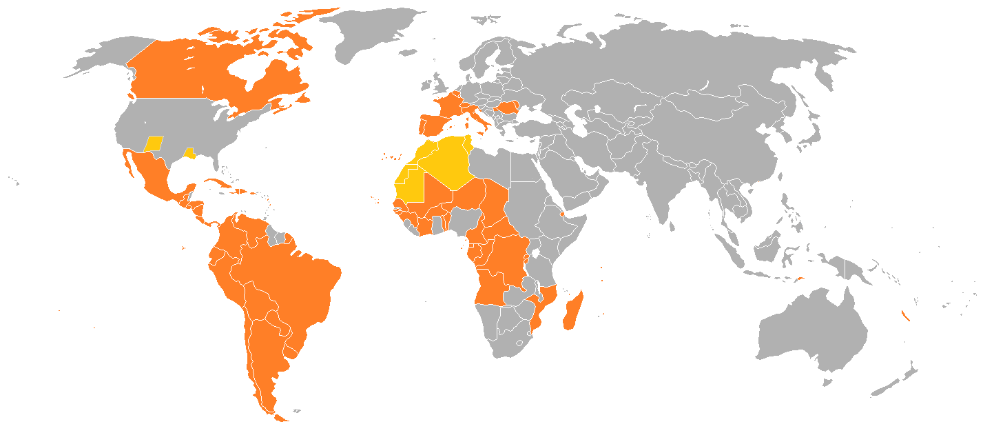 Romance languages: Dark orange = official languages; light orange = national/secondary languages